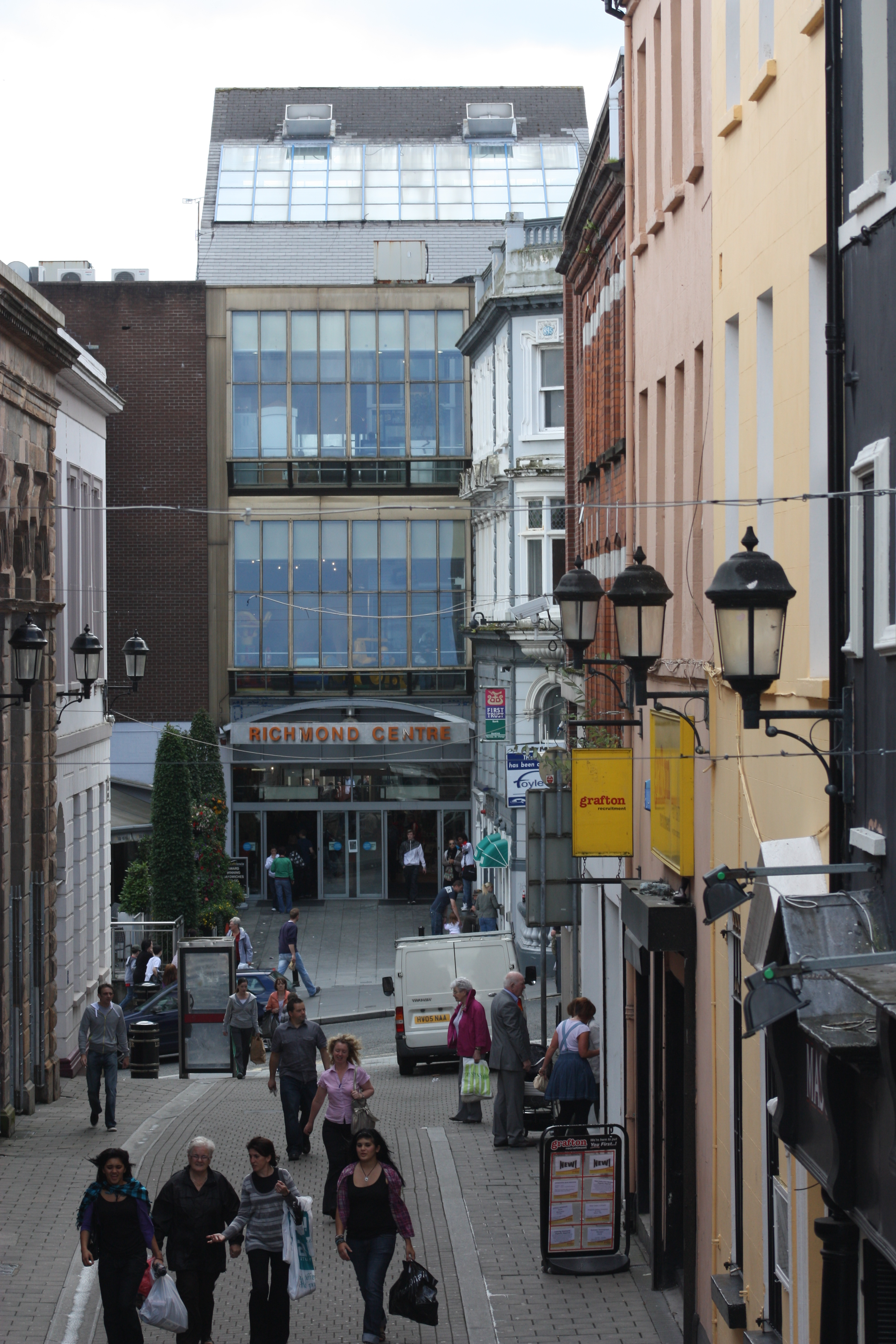 Castle Street, Derry, County Londonderry, Northern Ireland, August 2009 (viewed from the walls of Derry and showing the Shipquay Street entrance to the Richmond Centre)